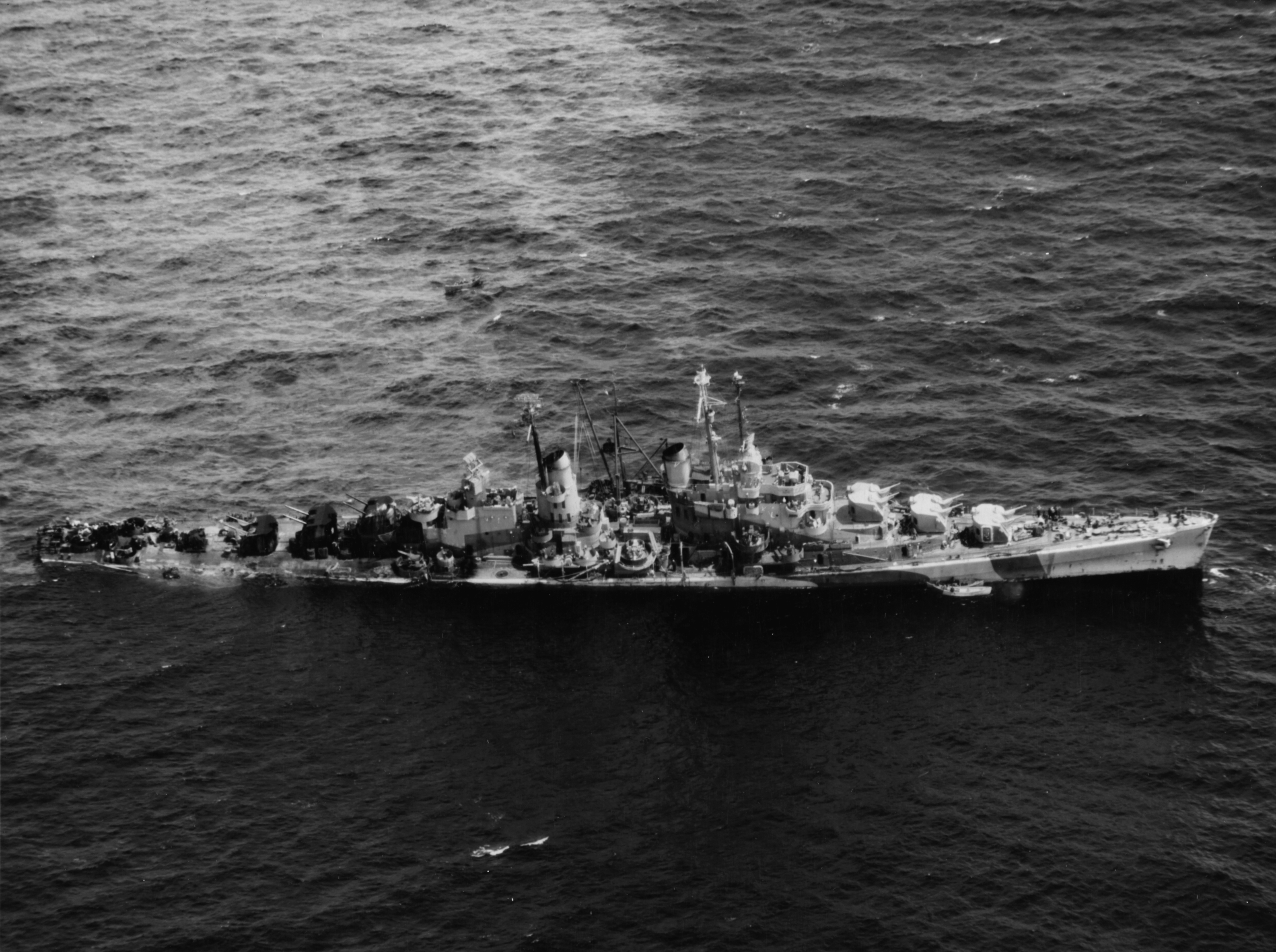 The U.S. Navy light cruiser USS Reno (CL-96) under salvage after being torpedoed off the Philippines on 3 November 1944. The photograph was taken on 5 November, while the fleet tug USS Zuni (ATF-95) was tied up to Reno's port side. Note the large amount of fuel oil on the sea.